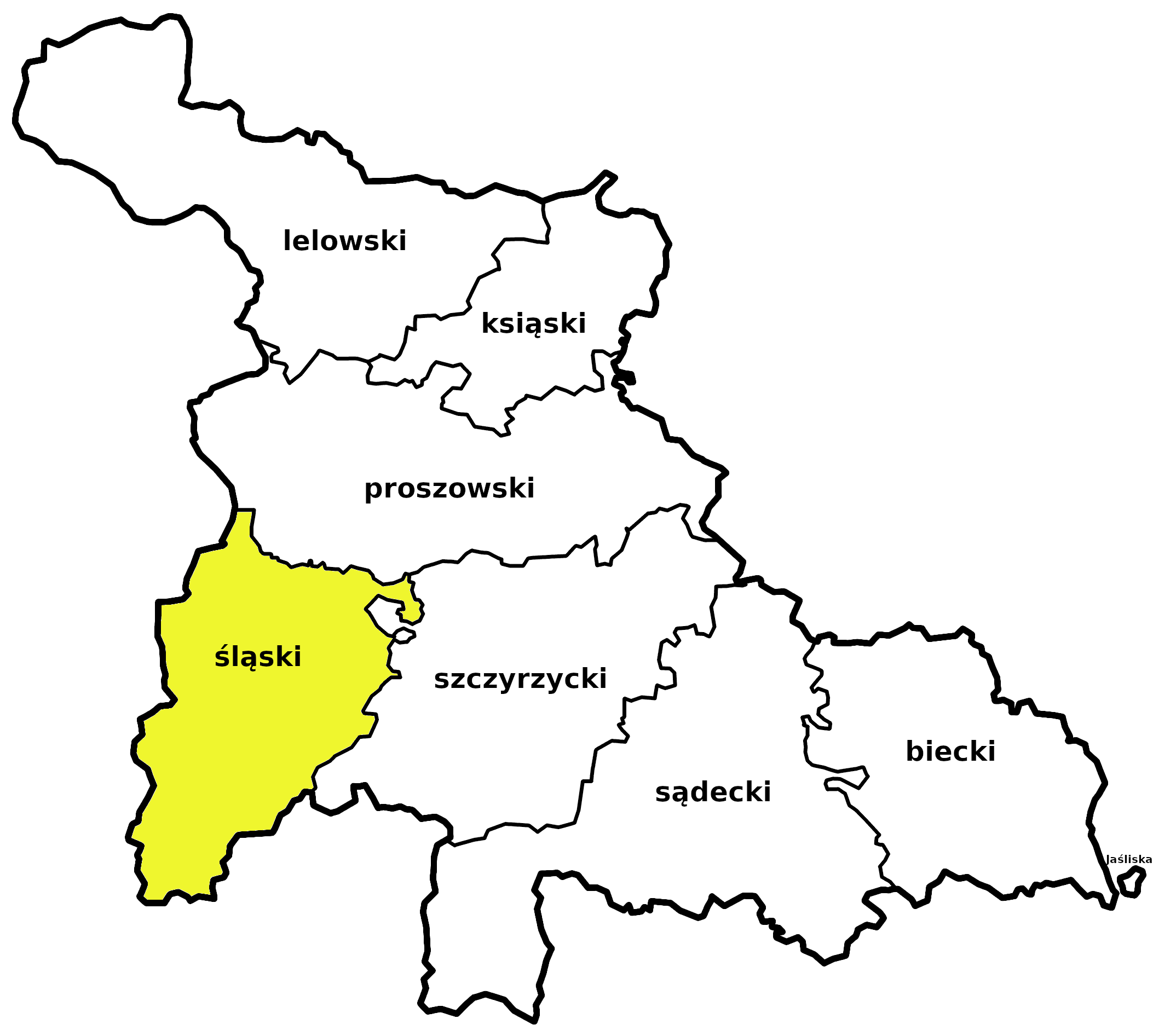 Silesian County of Kraków Voivodeship about 1600